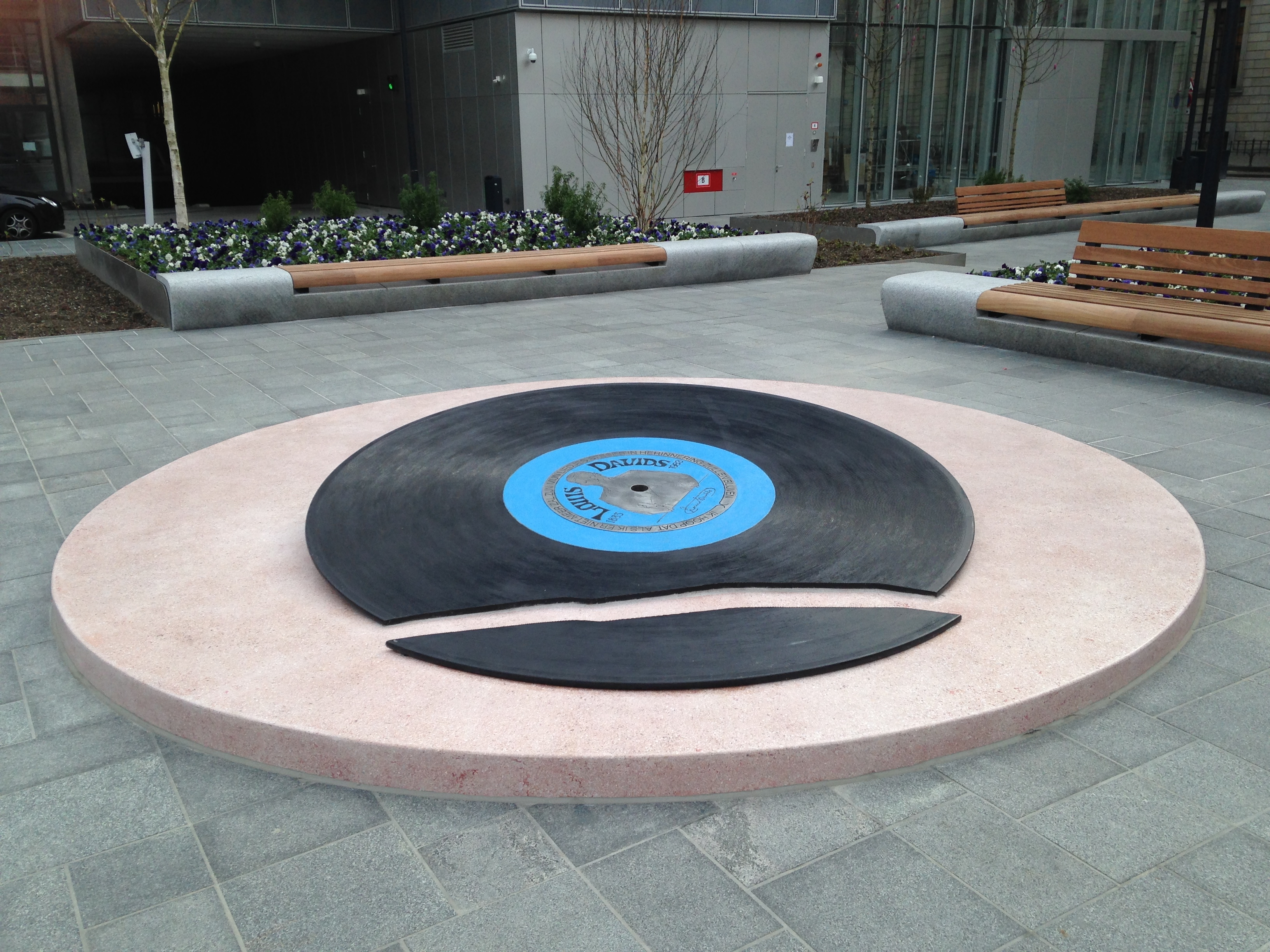 Public sculpture by Mathieu Ficheroux in Rotterdam